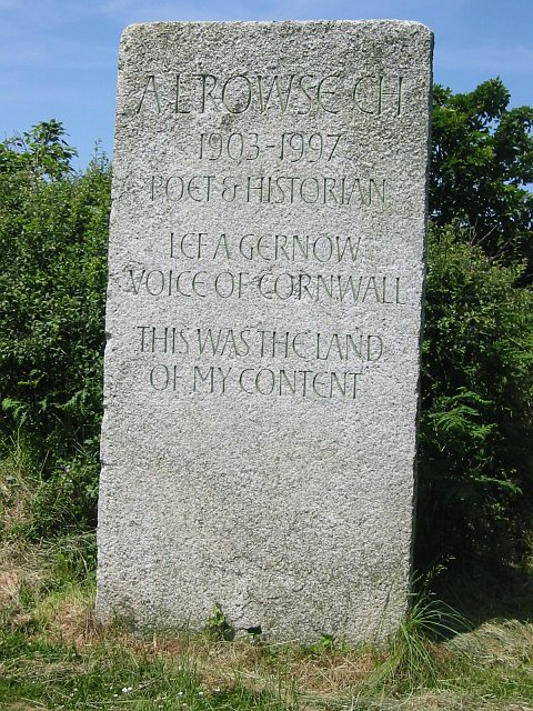 Memorial to A. L. Rowse. This memorial stone is made of granite from the De Lank quarry on Bodmin Moor. It is probably the memorial stone on Black Head, overlooking St Austell Bay almost within sight of Trenarren. The inscription reads: A L Rowse CH / 1903-1997 / Poet & Historian / Lef a Gernow / Voice of Cornwall / This was the land of my content